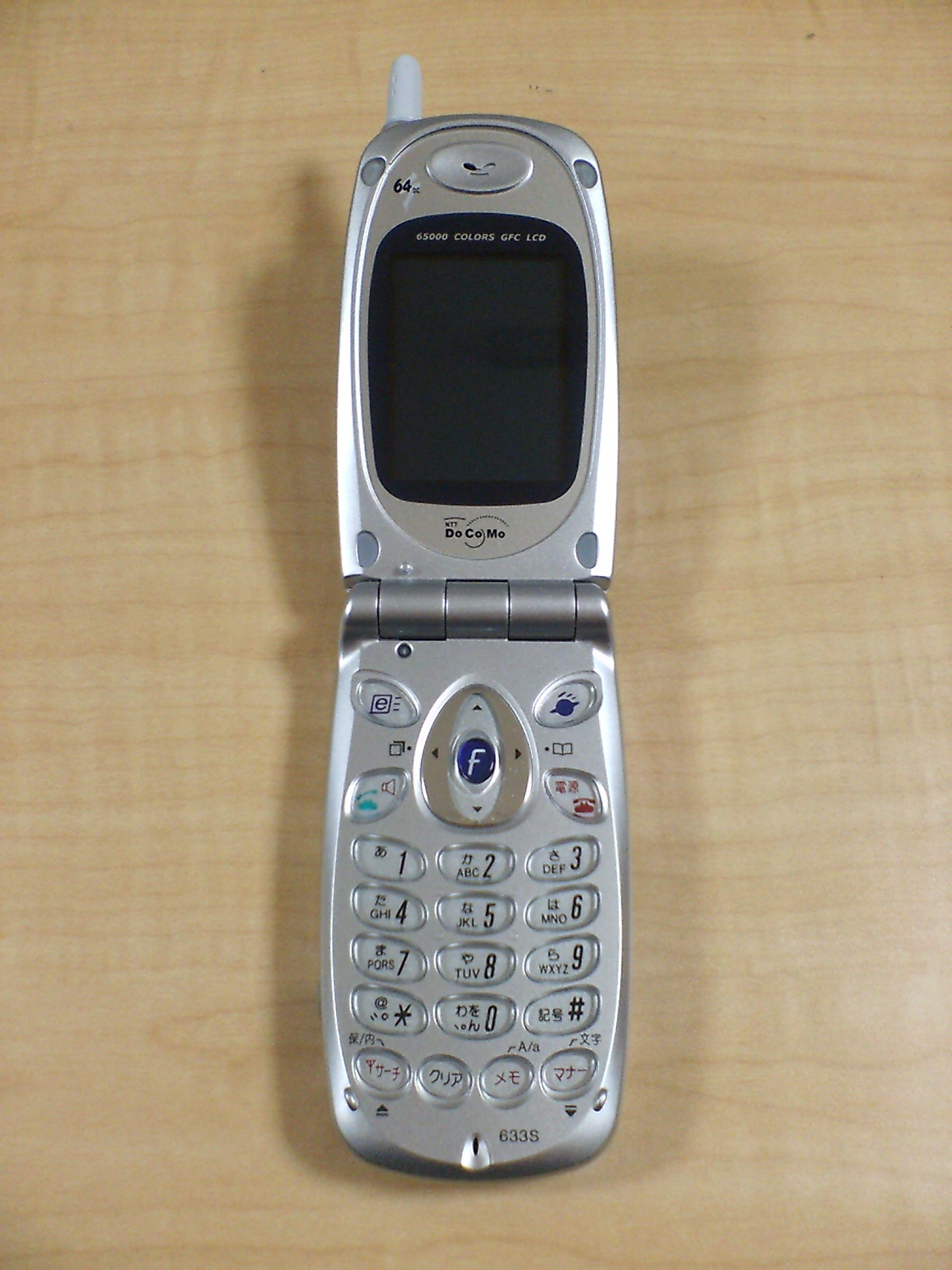 NTT DoCoMo/Sharp 633S PHS mobile phone